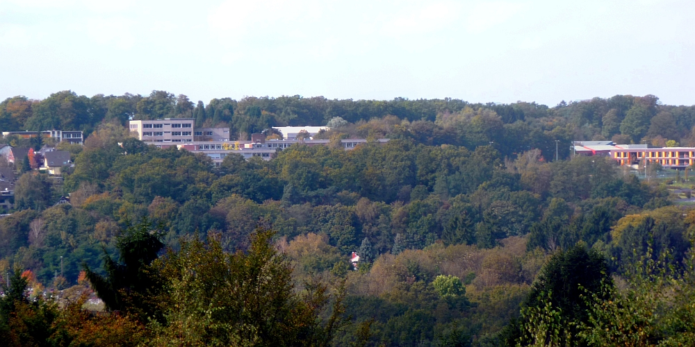 Rösrath Campus: Realschule Rösrath, Hauptschule Rösrath, Freiherr-vom-Stein-Schule Gymnasium Rösrath, LVR-Schule am Königsforst (FLTR)